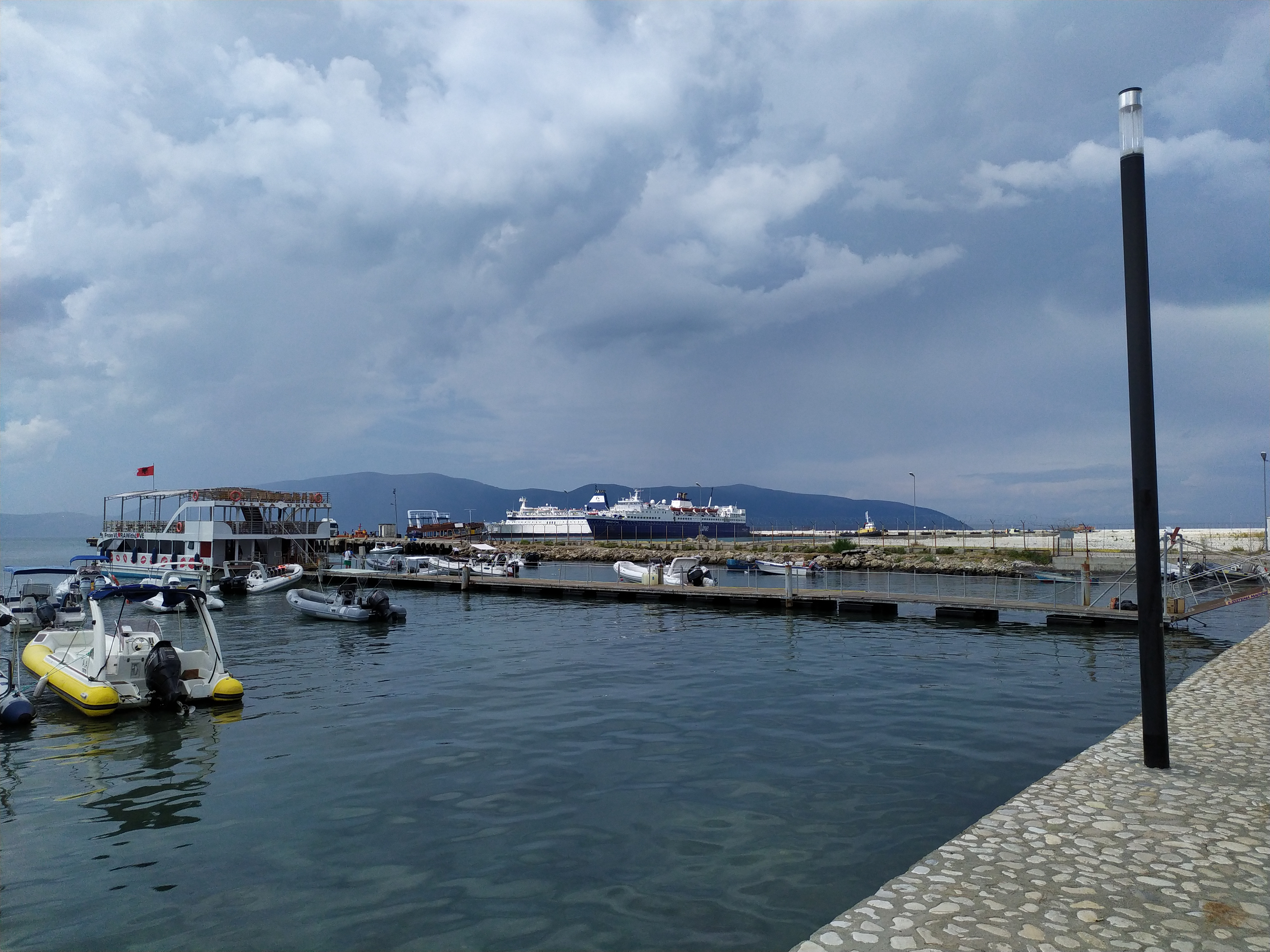 Ships in the port of Vlora, Albania